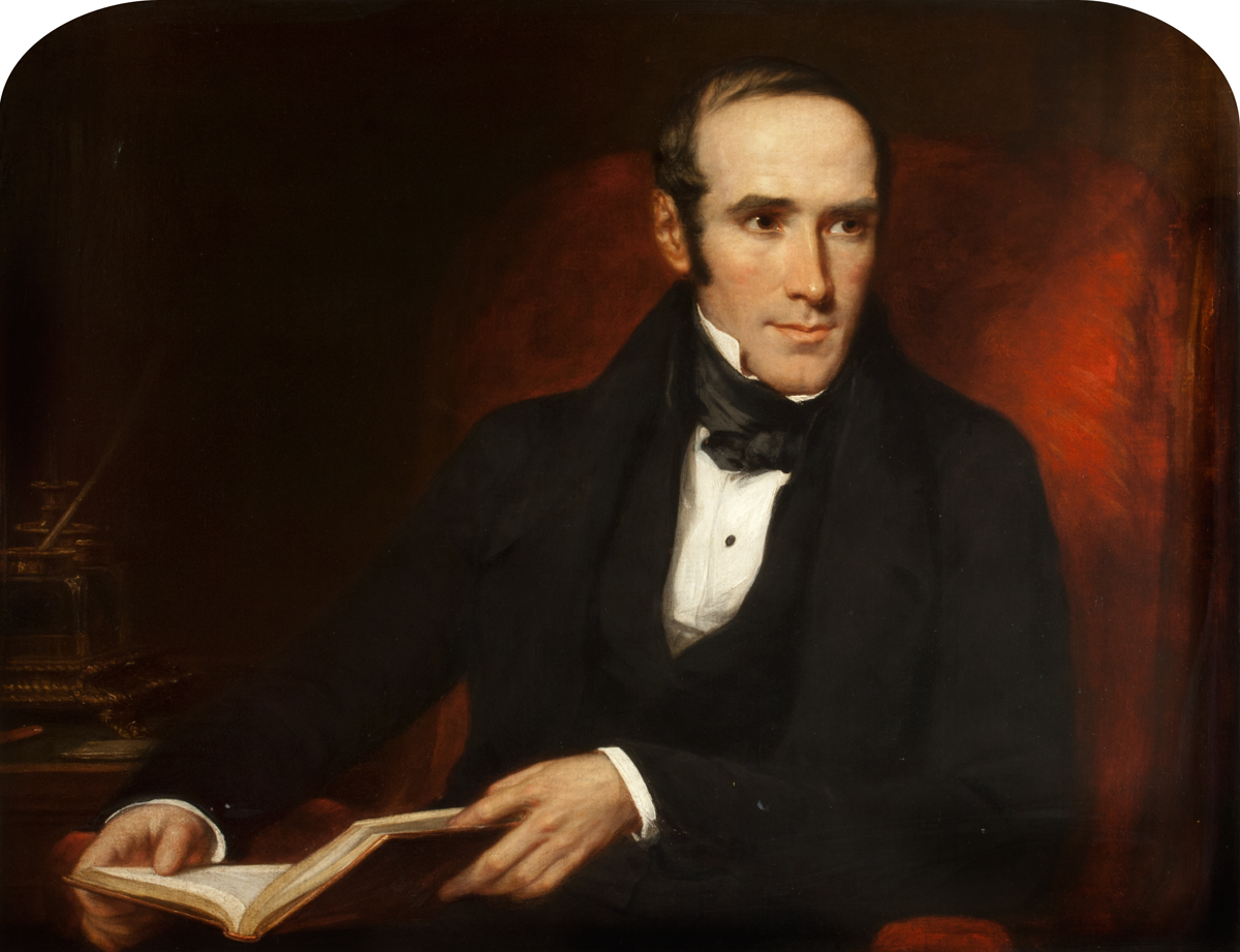 Andrew Combe, Oil on canvas, 71 x 78.7 cm, Collection: Royal College of Physicians of Edinburgh.